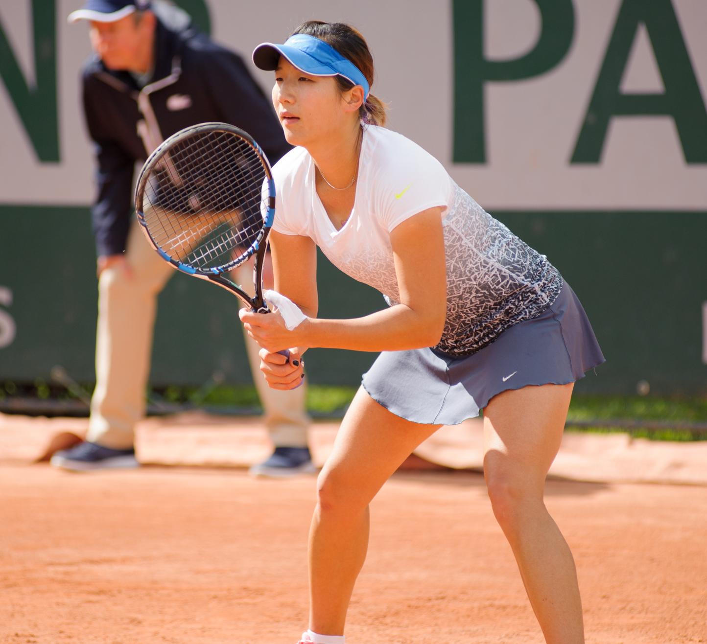 Zhang Kailin at the French Open 2015, Qualifications Day 2. Shot with a Nikon d700 and a 80-200 2.8 lens